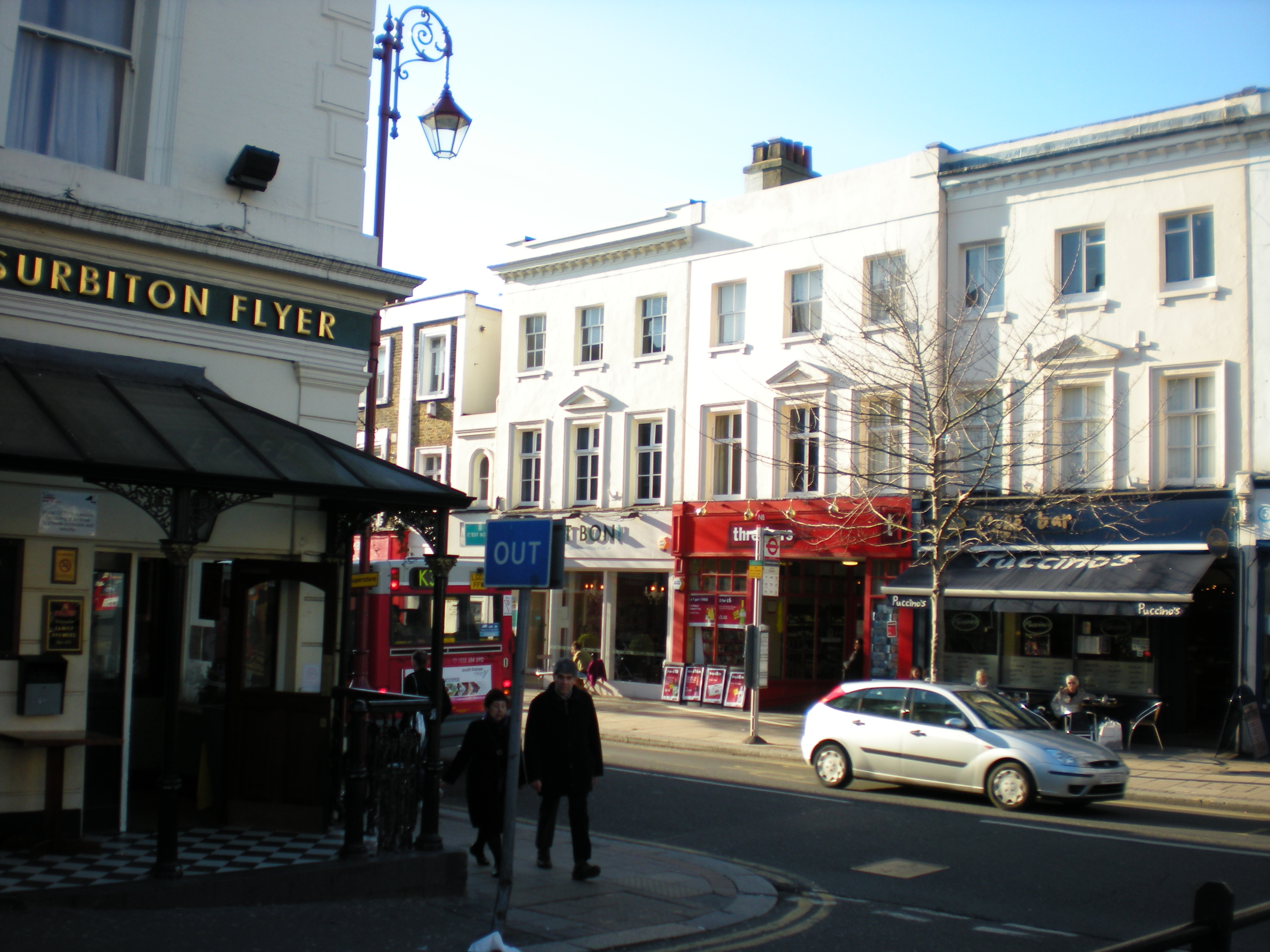 Surbiton.